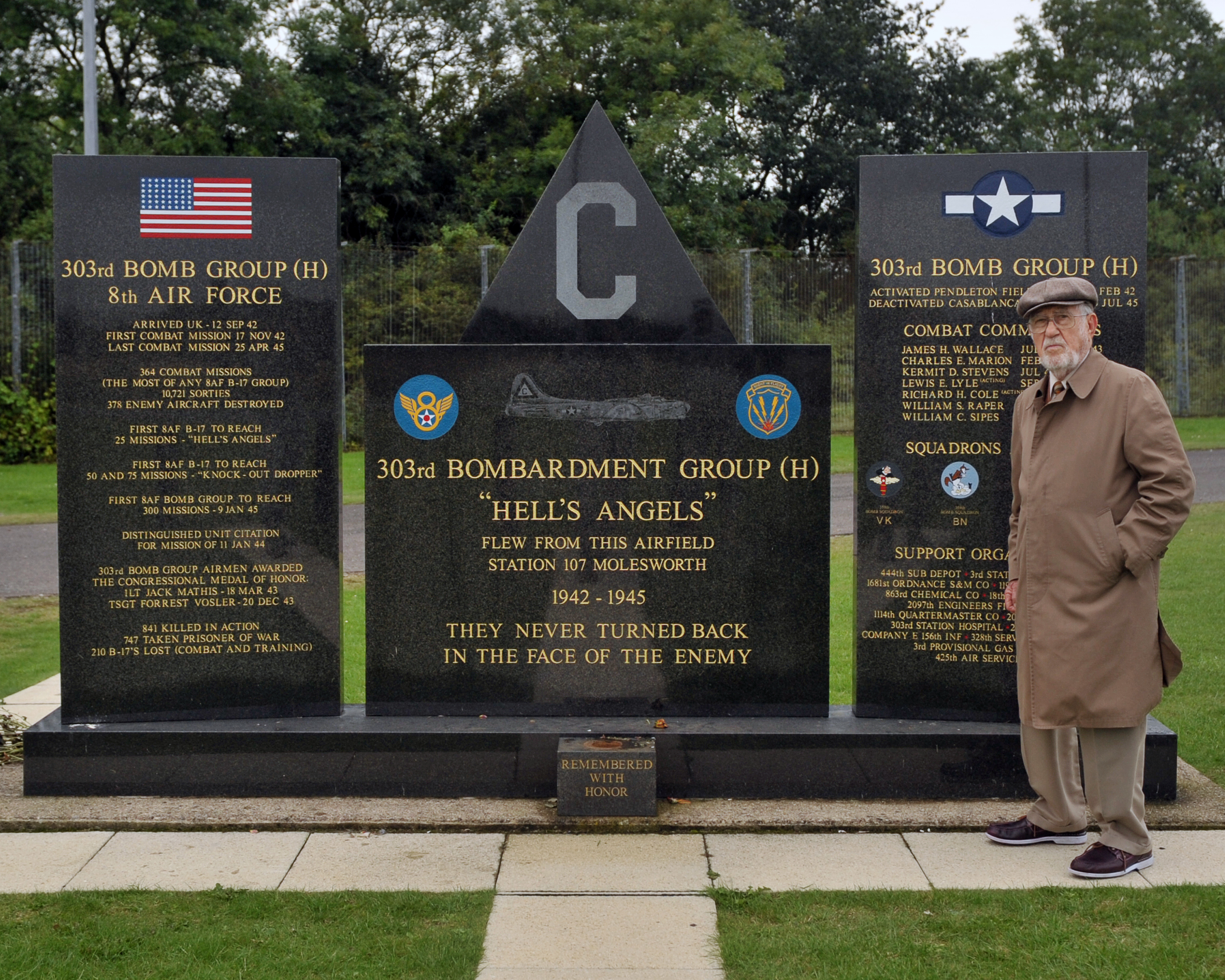 RAF MOLESWORTH, United Kingdom - Lt. Col. Albert Levin returned to RAF Molesworth, United Kingdom, after 68 years. Then 2nd Lt. Levin flew 35 missions as a B-17 "Flying Fortress" navigator over Nazi occupied Germany from RAF Molesworth from 1944 - 1945.